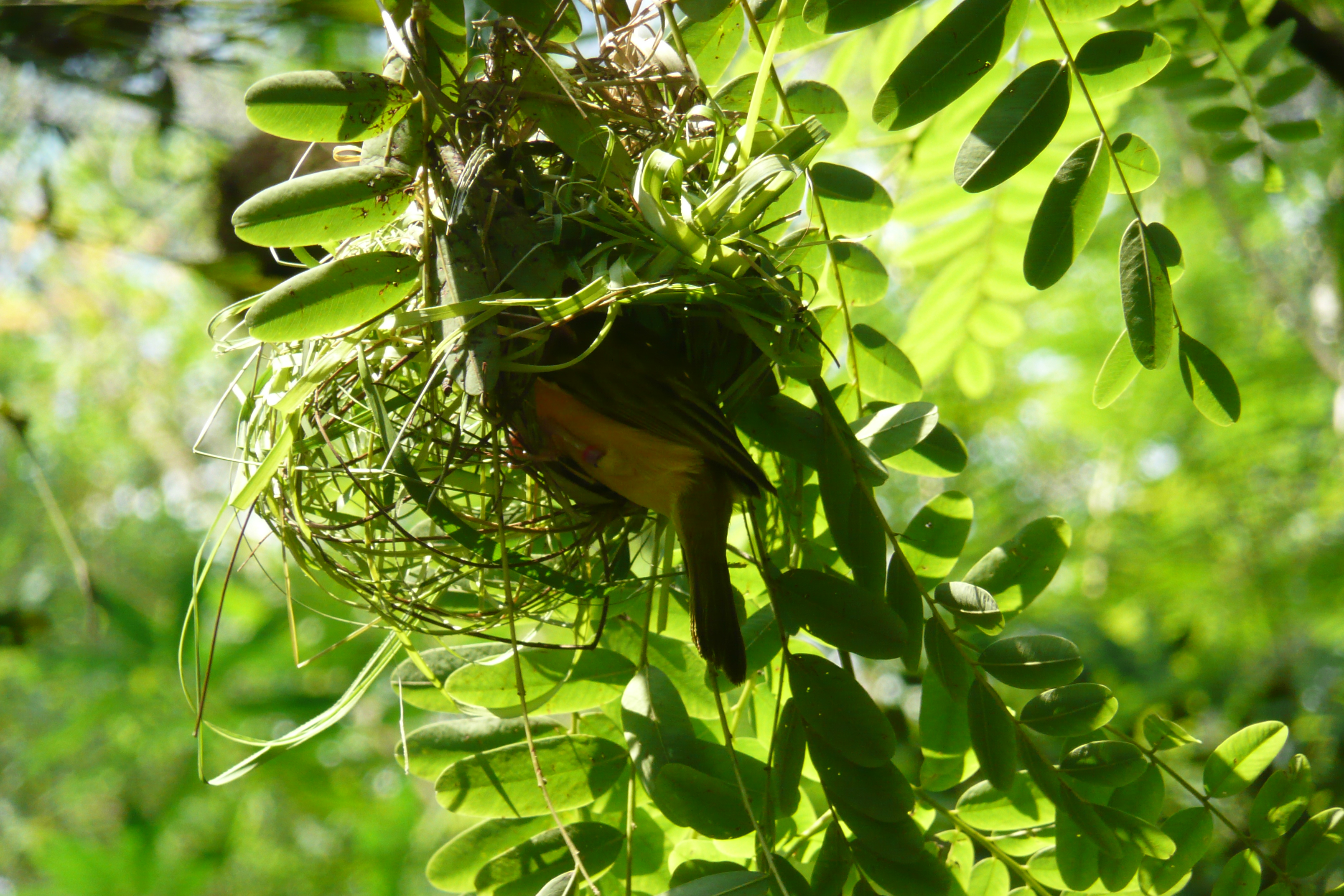 Taveta Golden Weaver weaving a nest in Disney's Animal Kingdom in Orlando, Florida